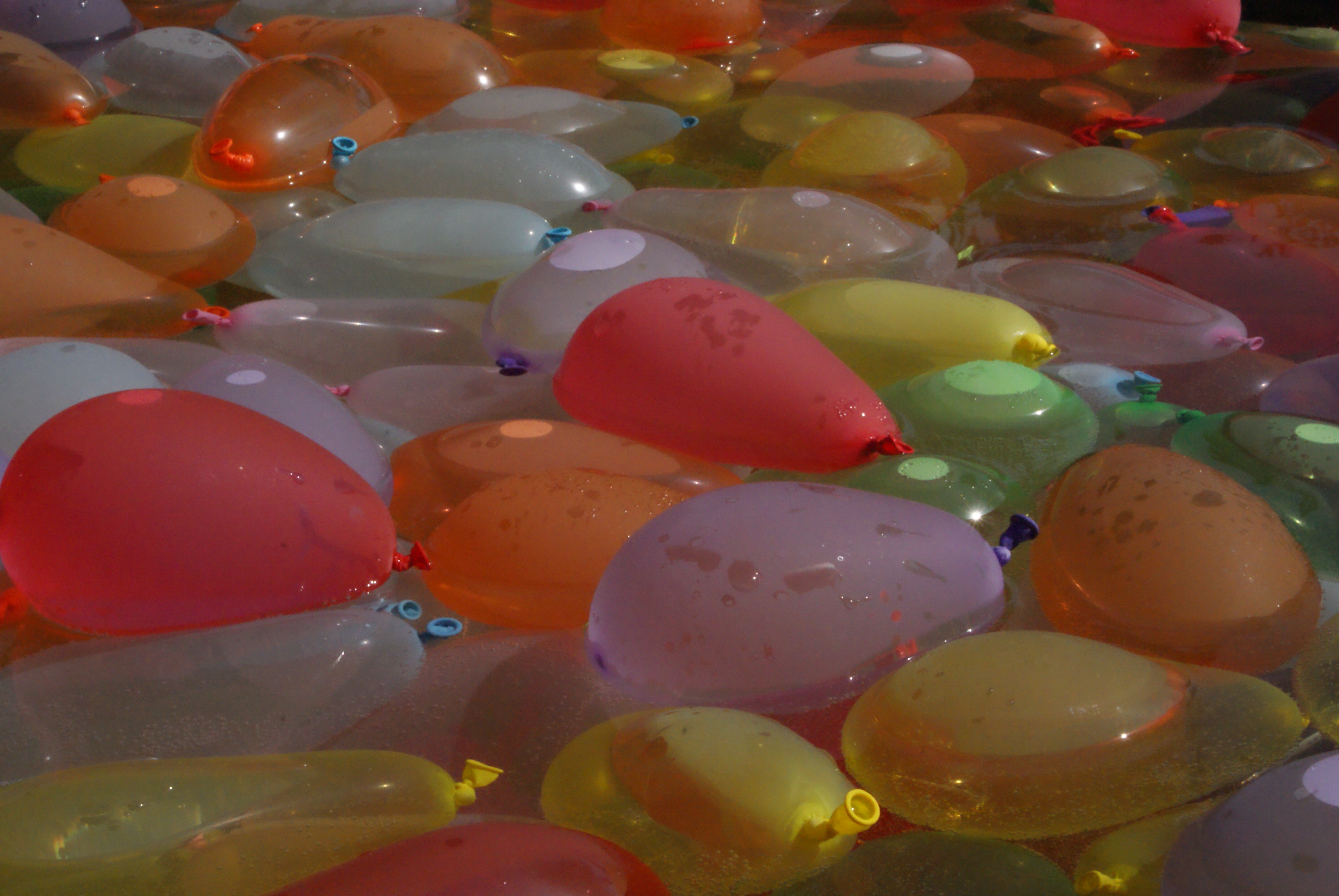 water balloons ready for use.